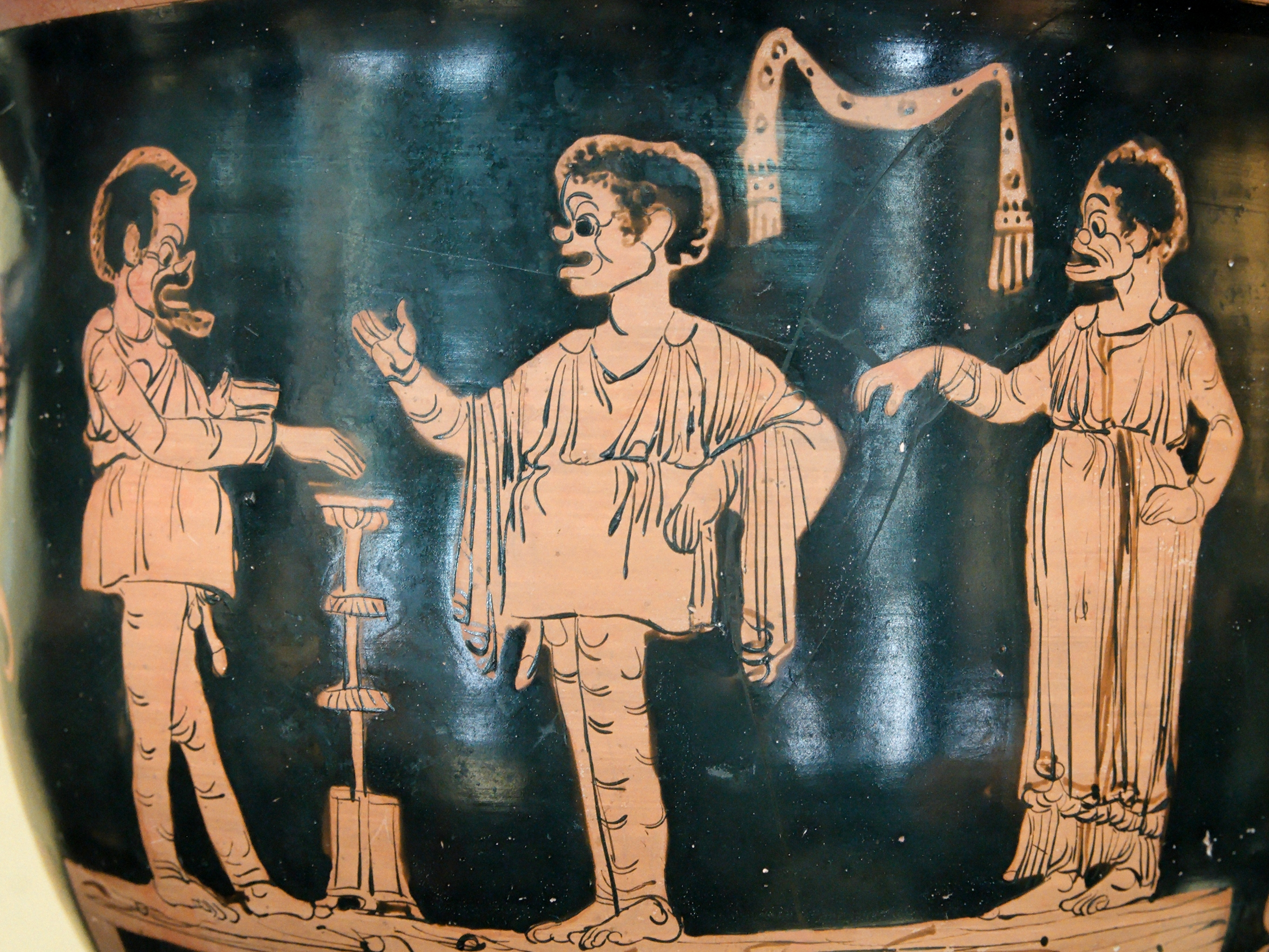 Phlyax scene. Apulian red-figure bell-krater, 2nd half of the 4th century BC.